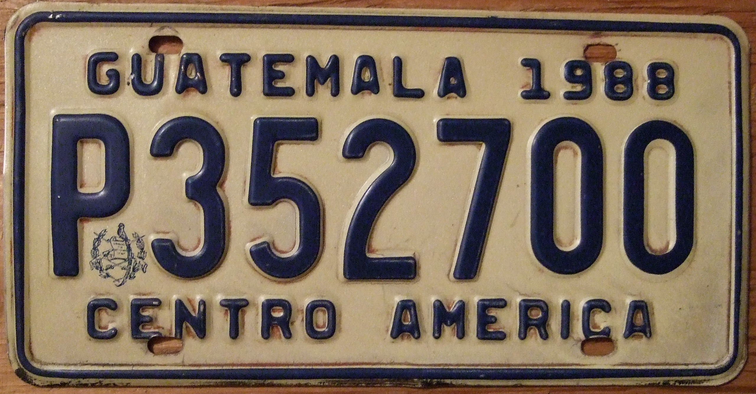 Plate is blue on reflective white, with a logo beneath the "P" in the serial number..